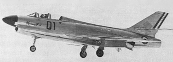 The French Dassault Mystère IVN in flight. The aircraft was equipped with the AN/APG-33 radar in an arrangement similar to North American F-86D Sabre Dog, powered by a Rolls-Royce Avon turbojet, and armed with 55× 68 mm Matra rockets in a retractable belly tray. The first prototype flew on 19 July 1954. The Armée d'l Air eventually decided to purchase Sud Aviation Vautour and F-86K for the interceptor role but the Mystère IVN prototype continued to fly for several years as a testbed for radar equipment.